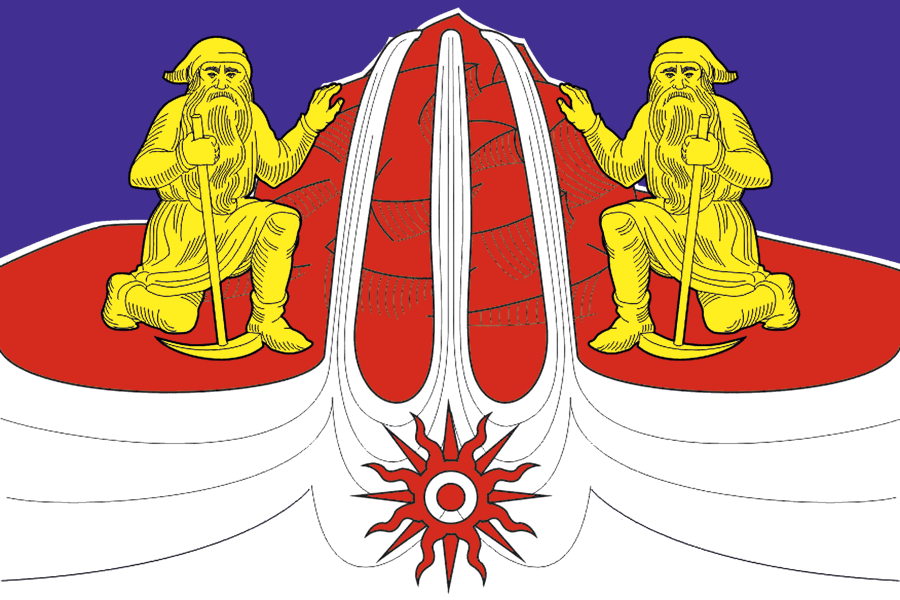 Flag of Nadvoitsy rural settlement, Karelia, Russia